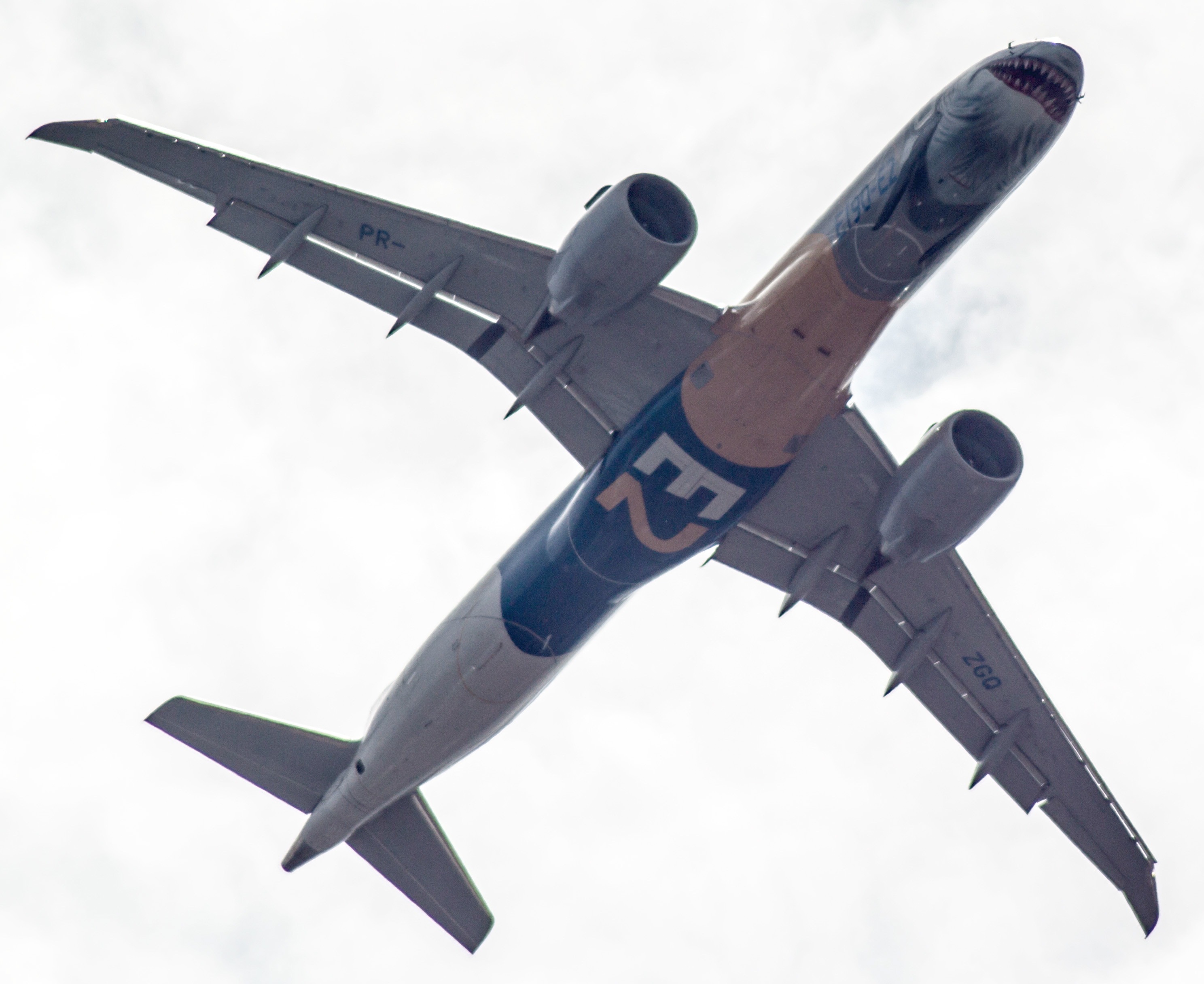 Farnborough Airshow 2018